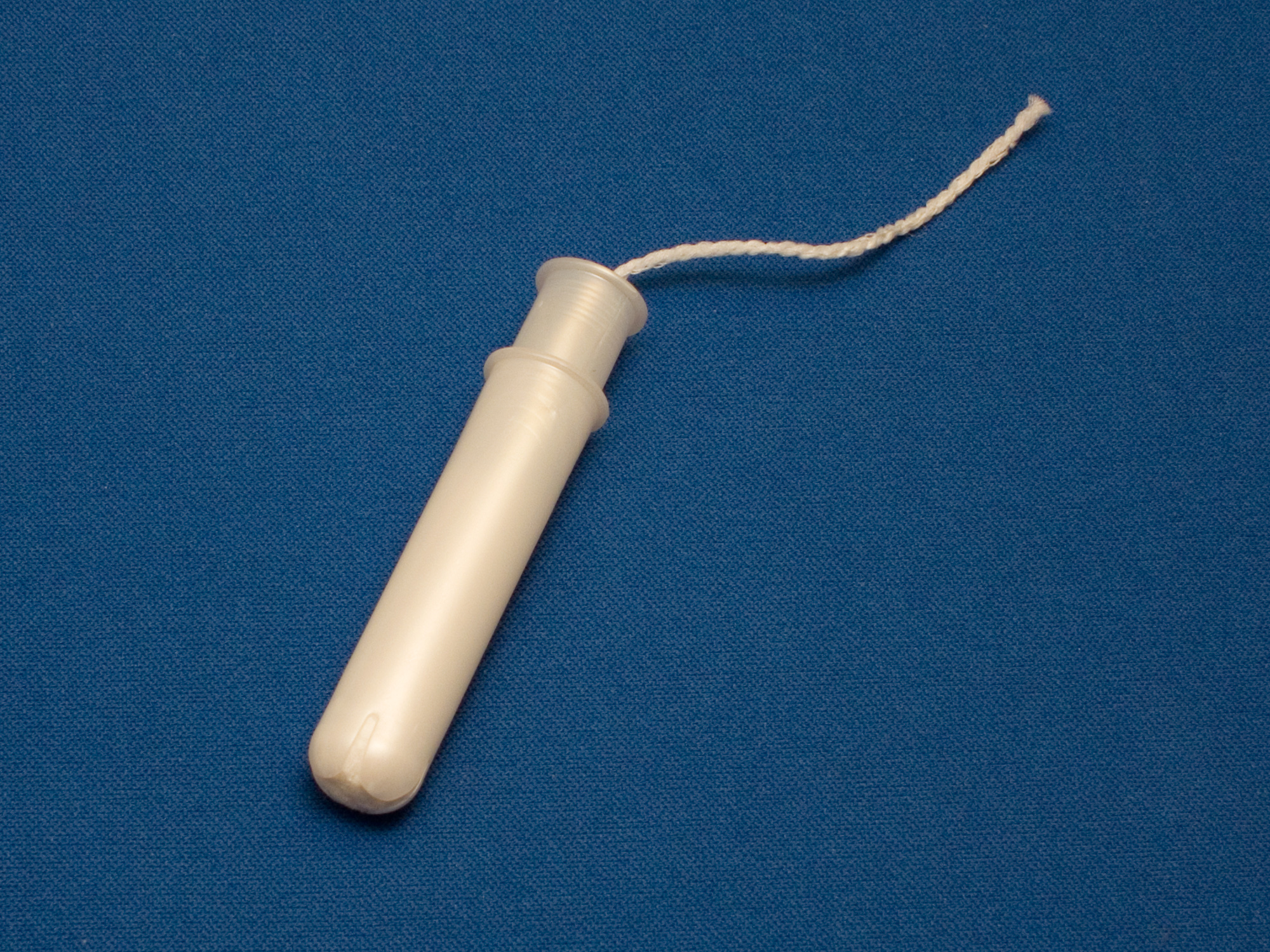 a tampon in a plastic applicator